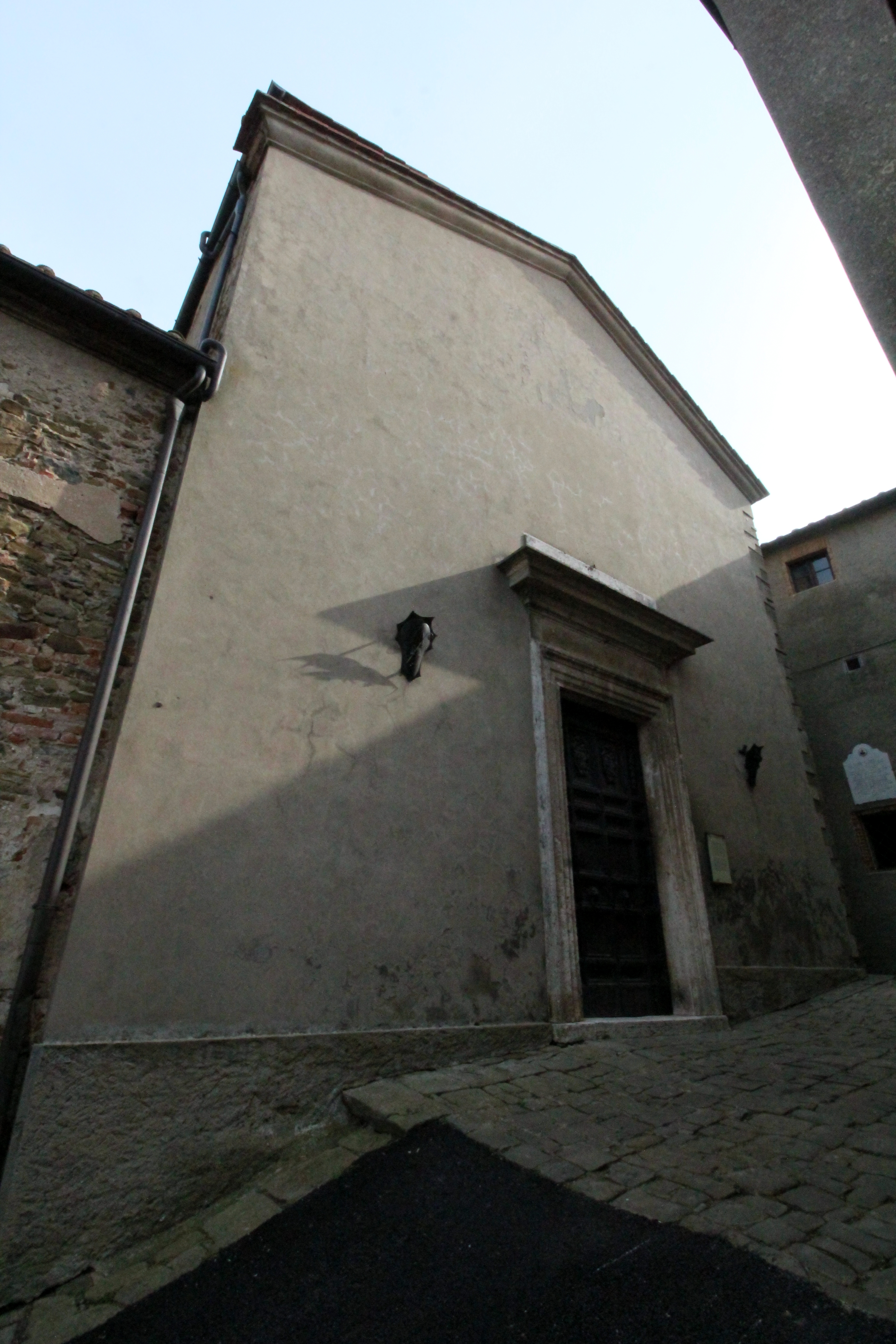 Church San Biagio, Scrofiano, hamlet of Sinalunga, Province of Siena, Tuscany, Italy